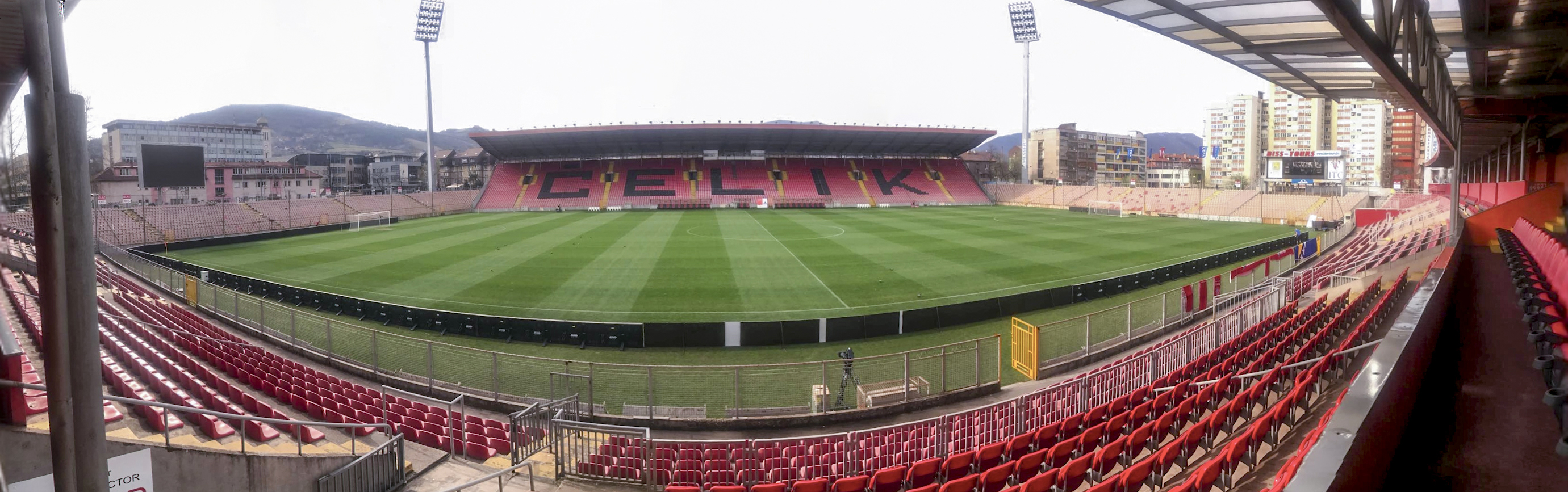 Bilino Polje Stadium (wide angle panorama view) in 2017